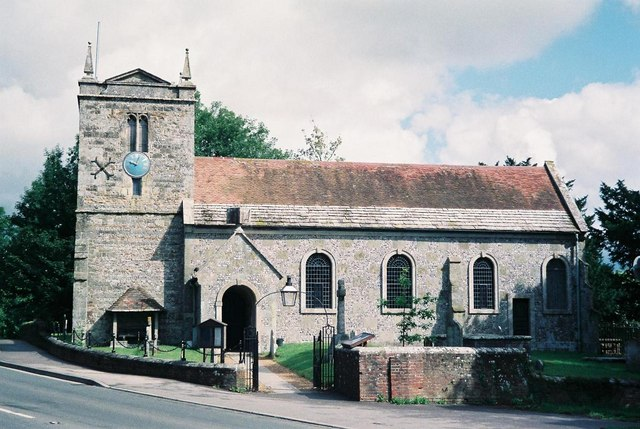 Charlton Marshall: parish church of St. Mary The tower is 15th century, the rest was rebuilt in 1713.